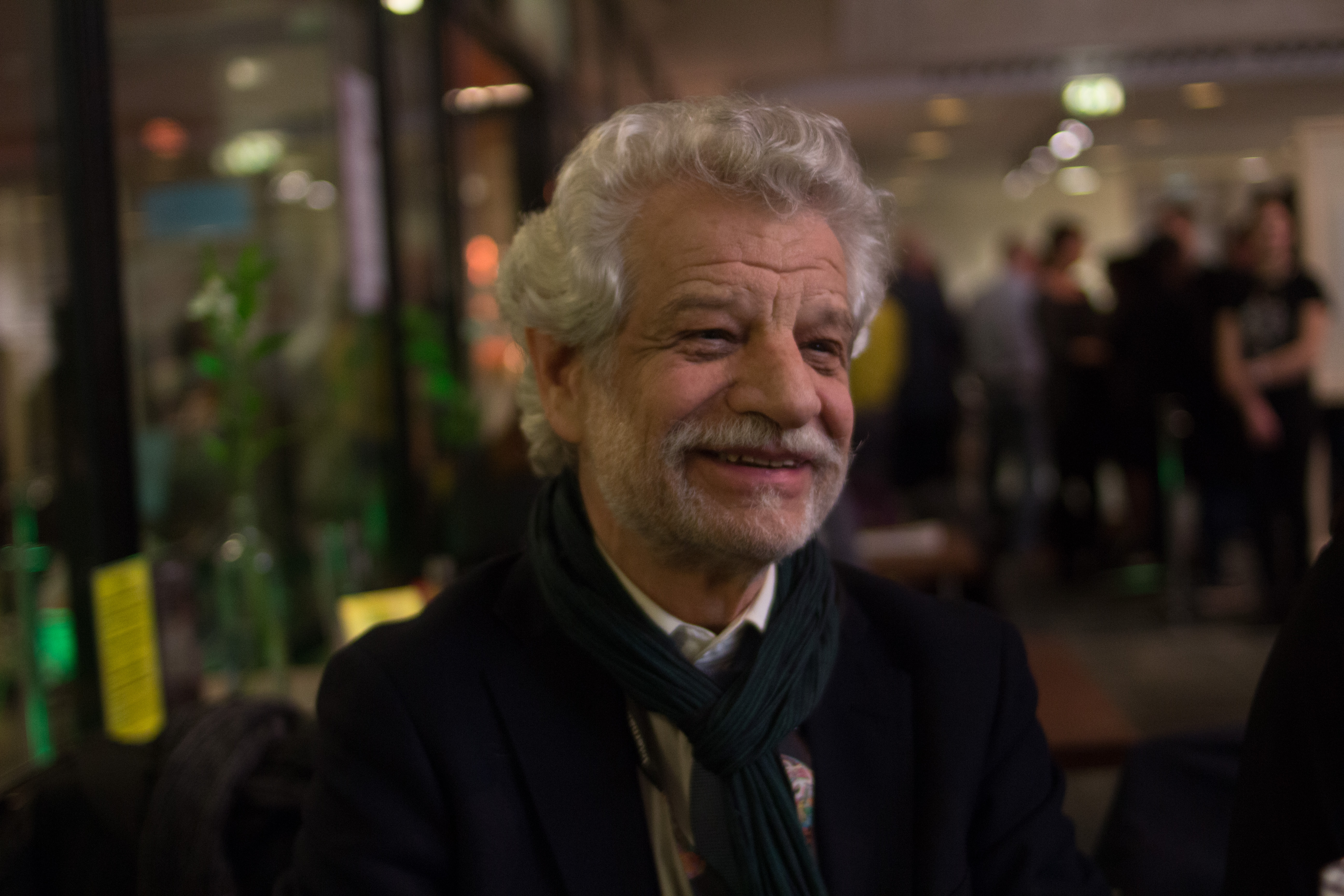 Thomas Elsaesser at the International Film Festival Rotterdam 2017